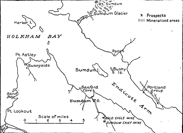 Holkham Bay